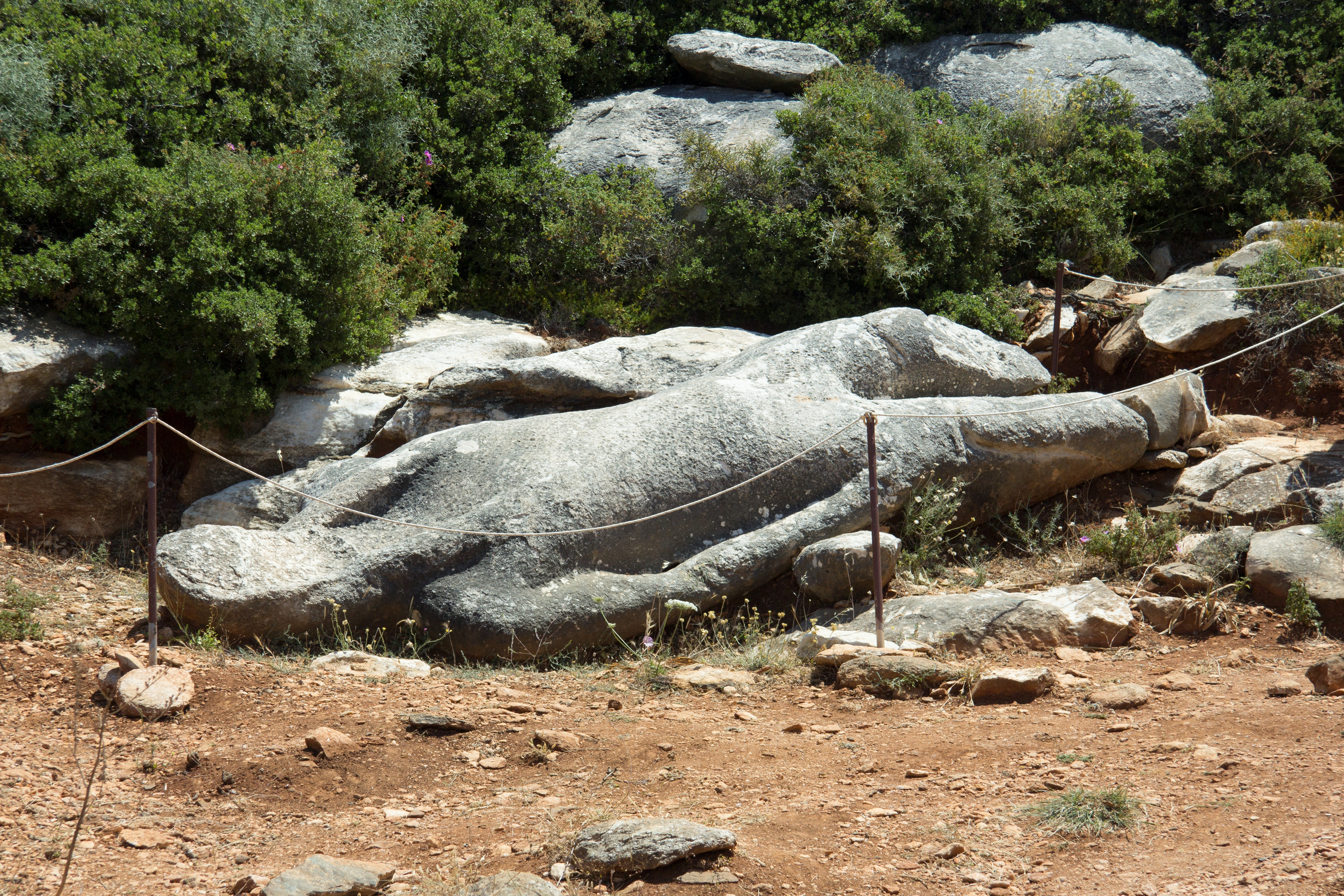 Kouros of Faranga, near Flerio on Naxos. Damaged semiproduct of archaic statue. Naxian marble, 5.5 meters, around the year 570 BC.